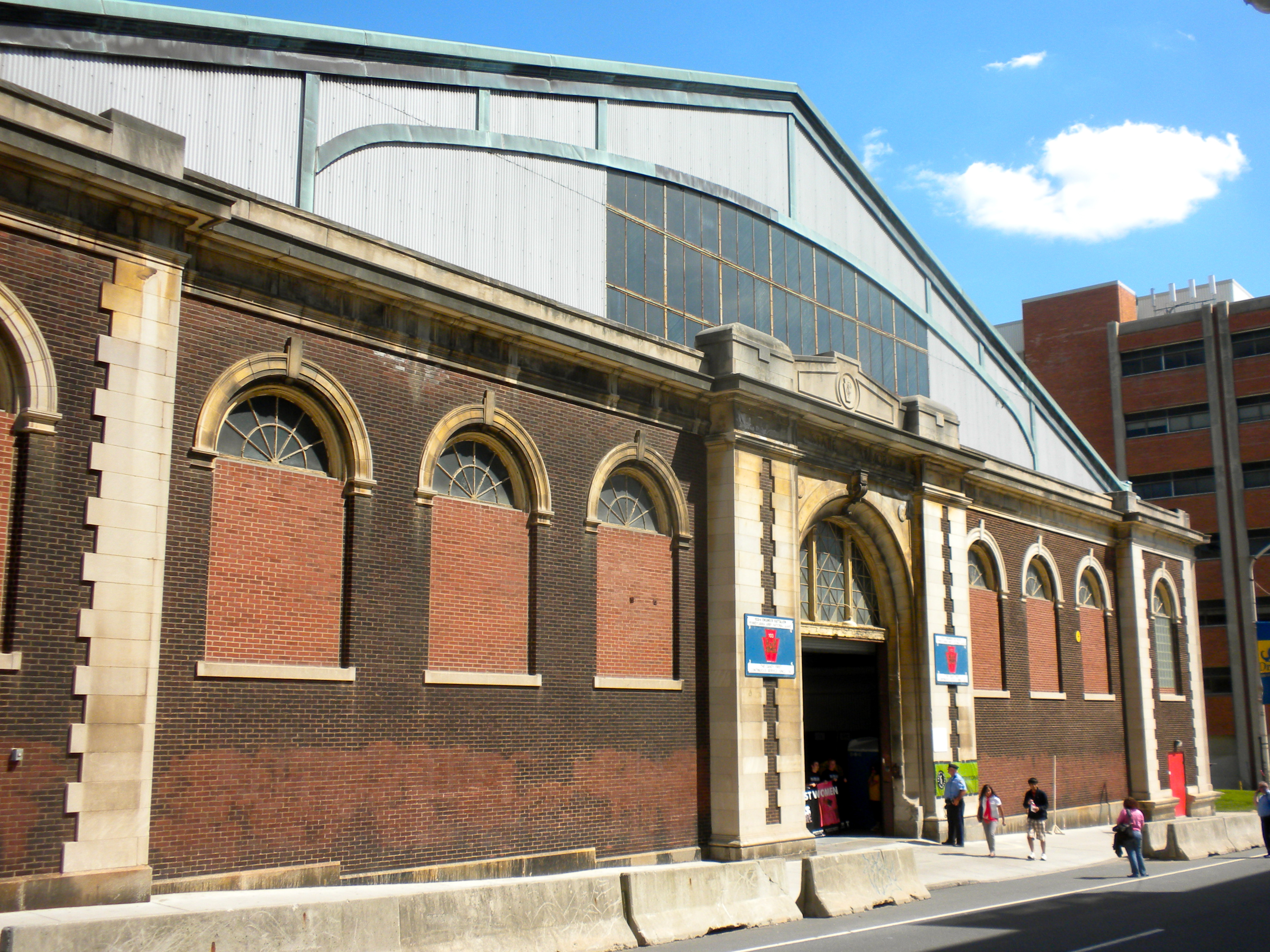 32nd St. and Lancaster Ave. Philadelphia Armory on the NRHP since November 14, 1991. At junction of 32nd Street and Lancaster Avenue in Philly. Near Drexel University Campus, north of Market street. University City neighborhood.